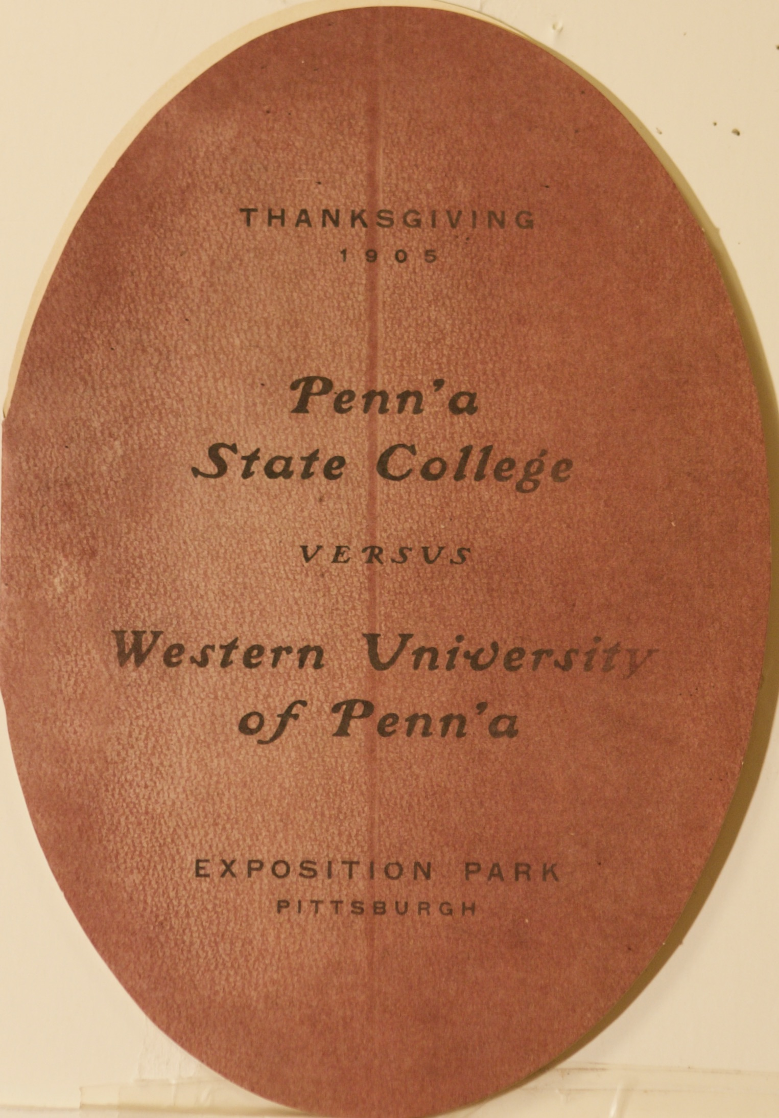 1905 WUP vs Penn State Scorecard